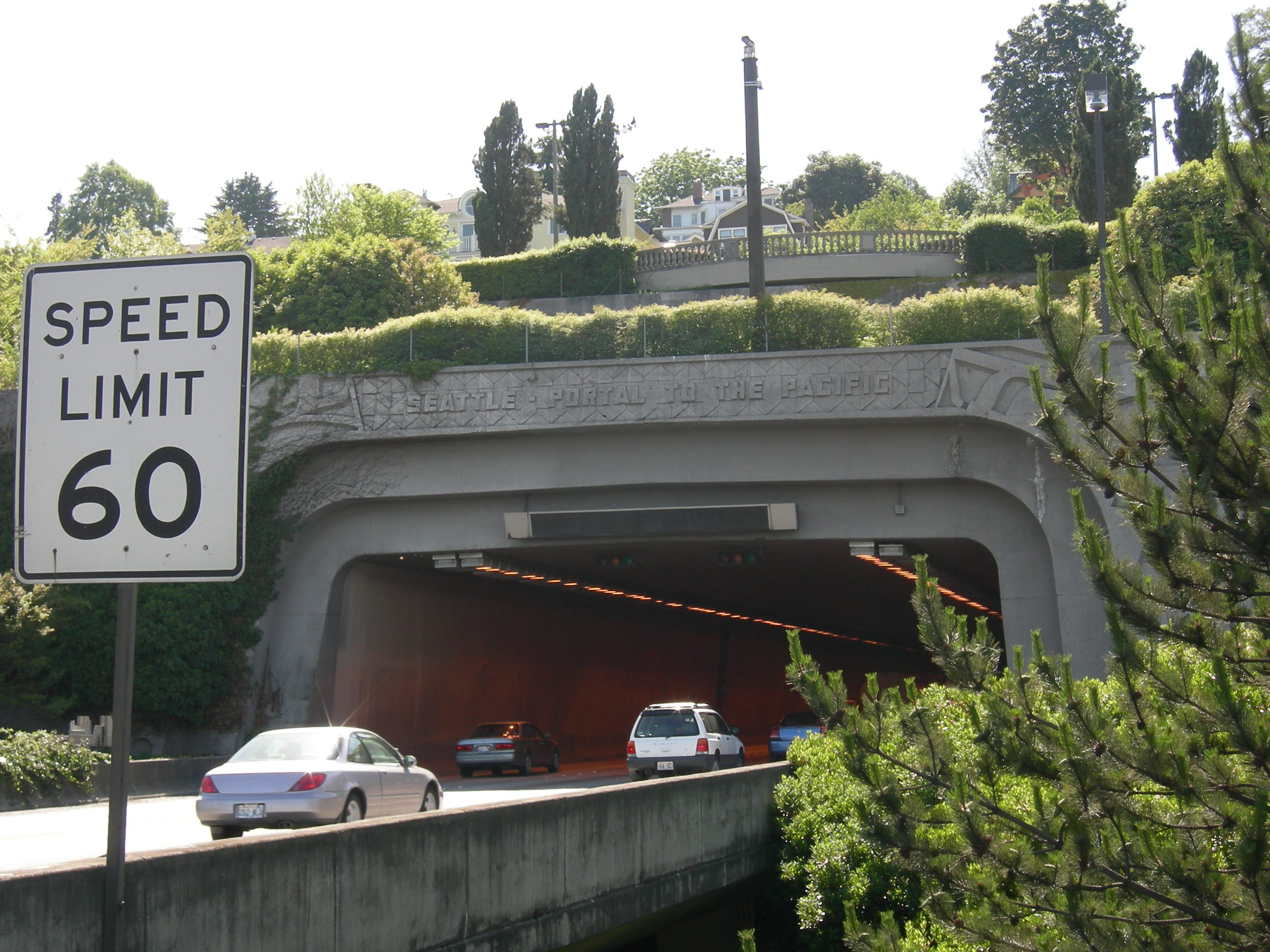 "Seattle Portal to the Pacific", sign executed as a sculptural relief in cast concrete on east entrance to the Interstate 90 tunnel through the Mt. Baker neighborhood, as you come off of the I-90 floating bridge (the westbound bridge is officially the Homer Hadley Bridge) into Seattle, Washington.